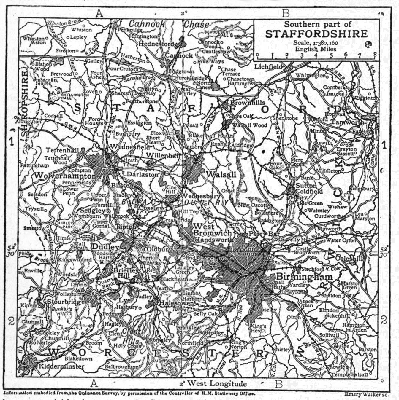 Map of the southern part of Staffordshire approx. 1911.Illustration from 1911 Encyclopædia Britannica, article Staffordshire.